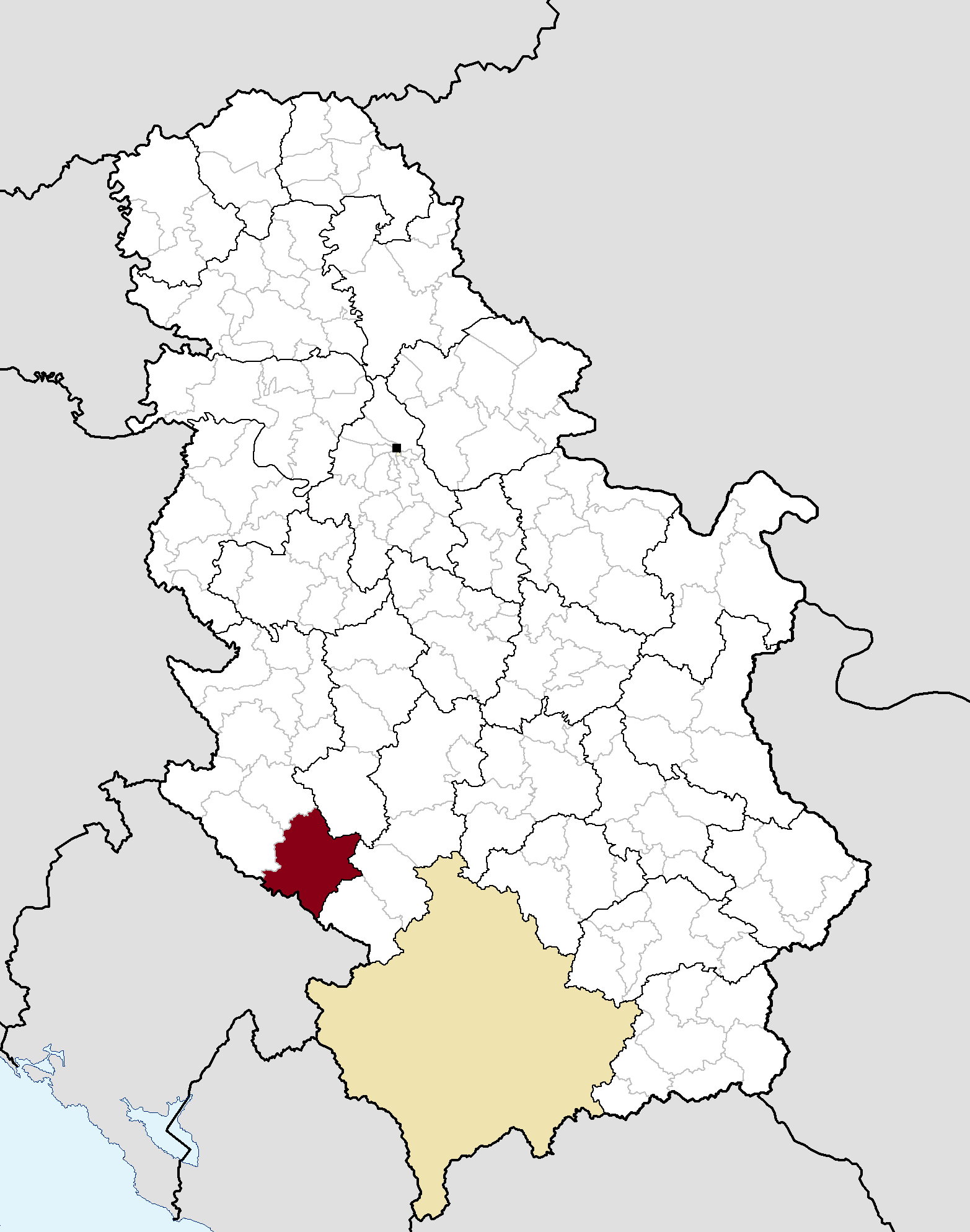 Municipal location in Serbia